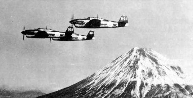 A flight of 3 Yokosuka D4Y2 Suisei over the snow-capped sacred Mount Fujiyama